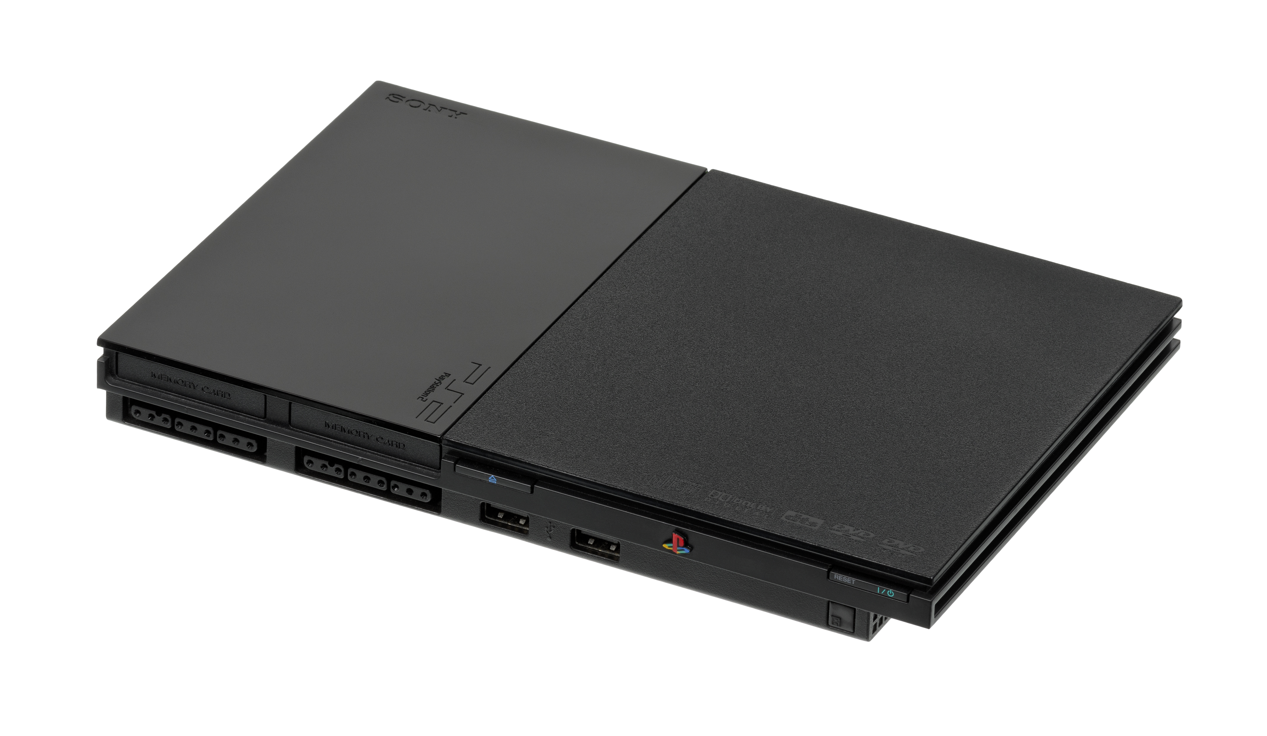 The Sony PlayStation 2 (also known as the "PS2") video game console, first released in 2000. The successor to the enormously successful PlayStation console, Sony's second system continued the trend and surpassed it to become the best-selling consoles of all time. This is a SCPH-90001 model, a version of the third model released (the "slim") that is very similar to the previous slim, but incorporated the power supply into the system, removing the need for a power brick.